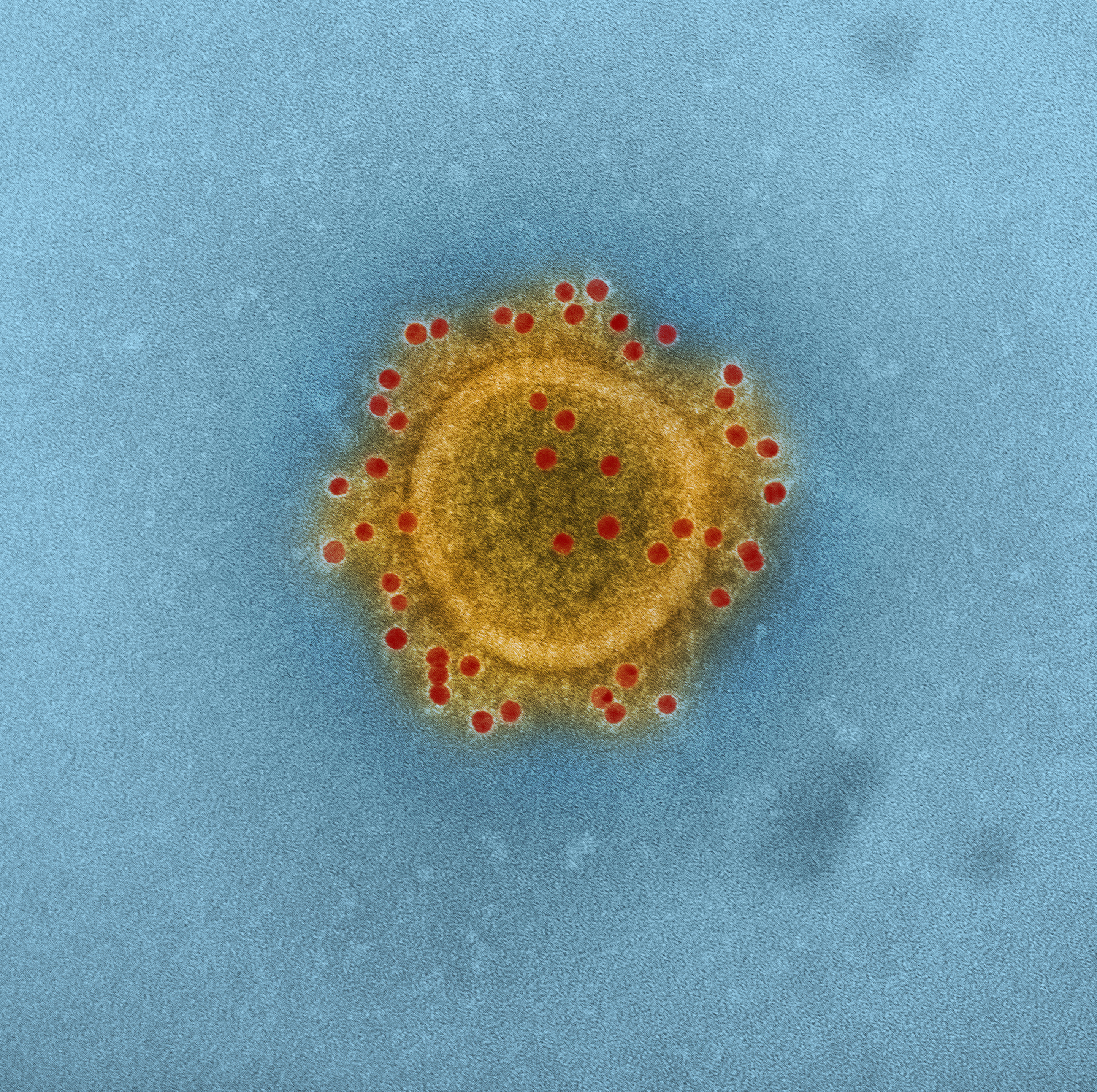 A colorized micrograph of the Middle East Respiratory Syndrome Coronavirus particle envelope proteins immunolabeled with Rabbit HCoV-EMC/2012 primary antibody and Goat anti-Rabbit 10 nm gold particles.